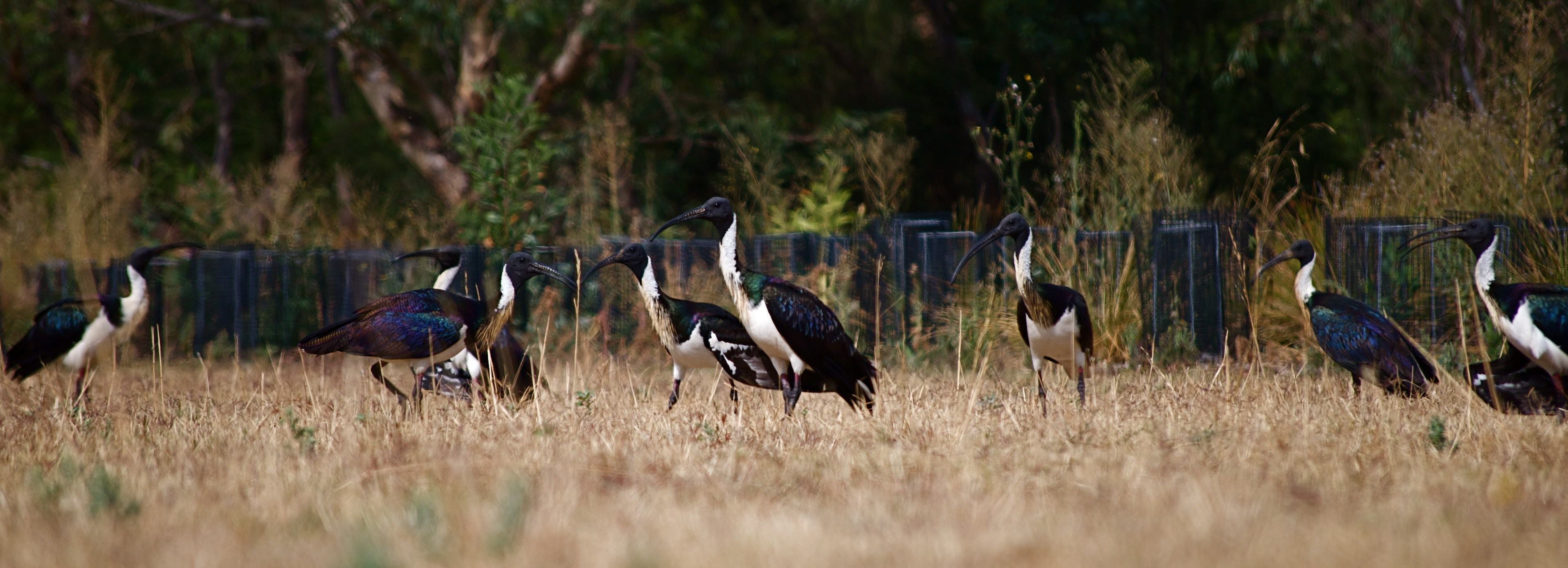 Straw-necked Ibis, Braeside Park (birdlife sanctuary), Victoria, Australia.